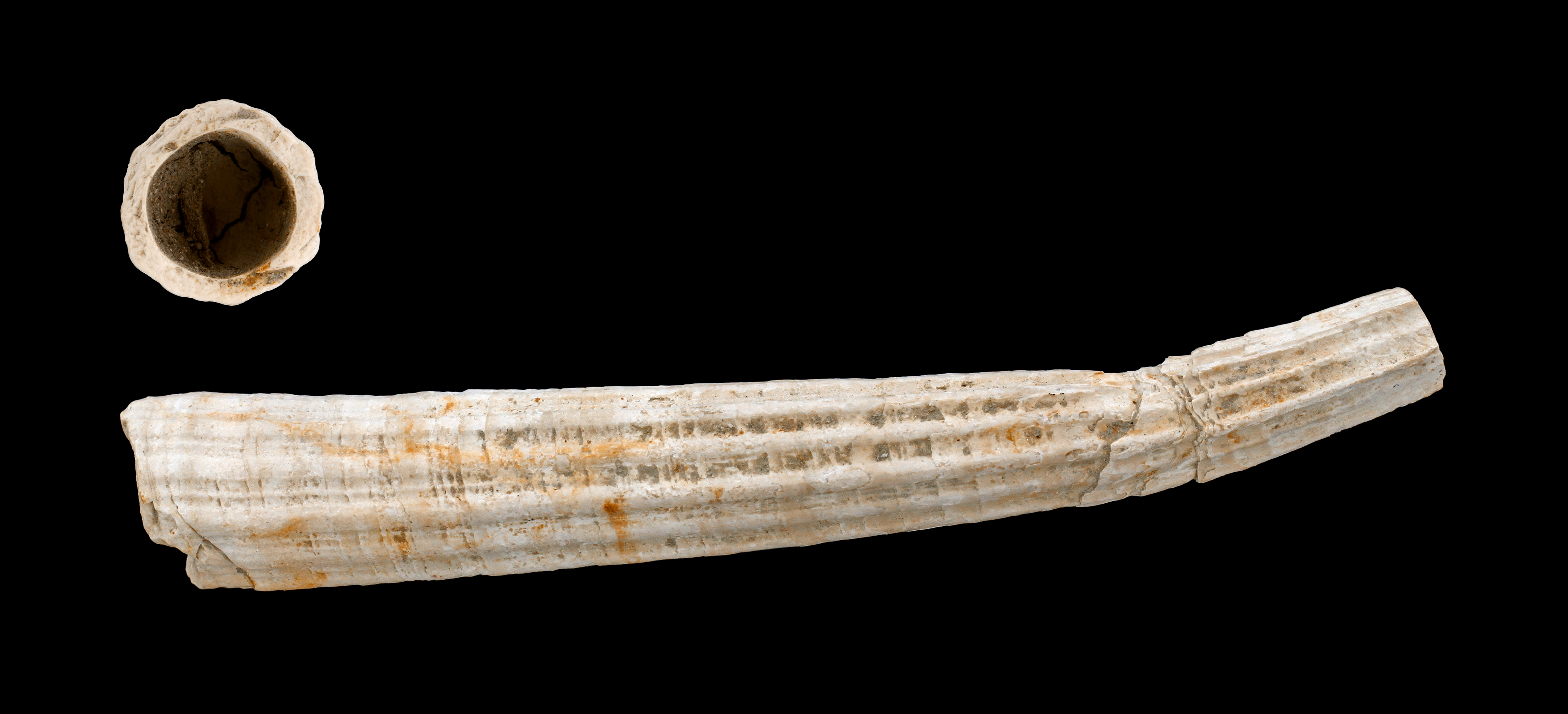 Length 6.3 cm; Pliocene, Piacenzian; Orvieto, Italy; Shell of own collection, therefore not geocoded.Lateral and frontal view.